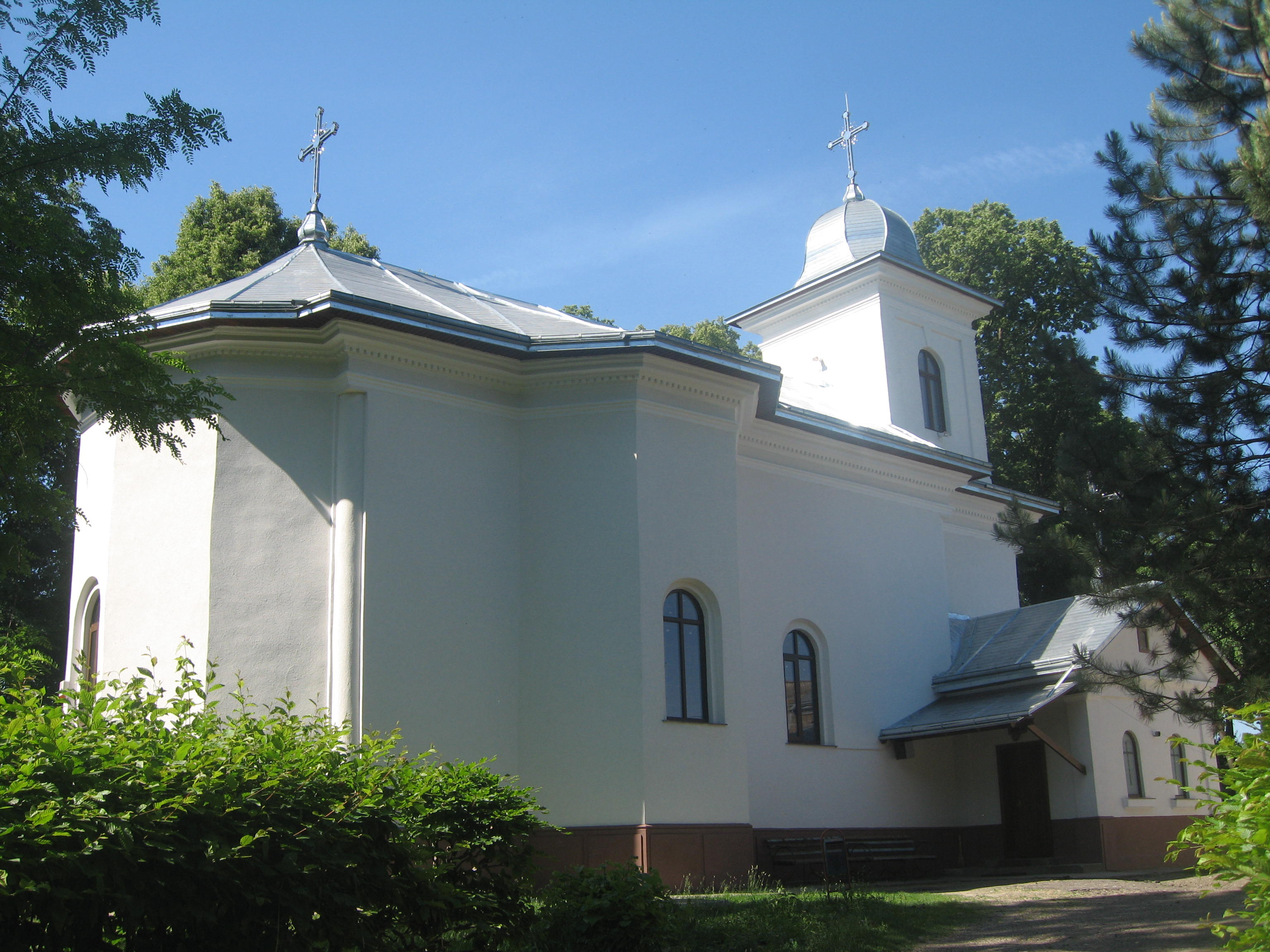 St. Nicholas Church in Liteni, Suceava County, Romania